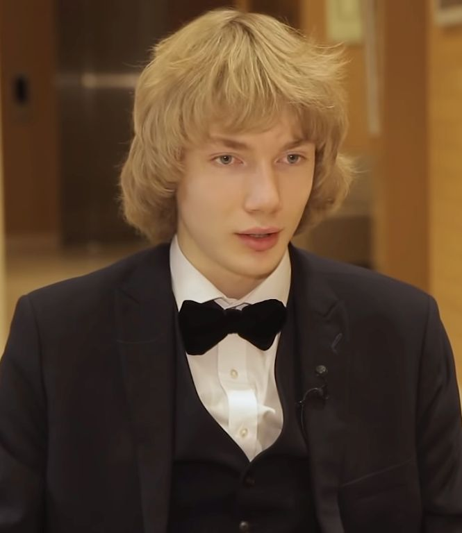 Ivan Alekseevich Bessonov, a Russian pianist and composer